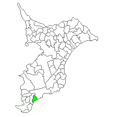 Location Map of former Wada Town, Chiba Prefecture, Japan, now part of Minamiboso City.